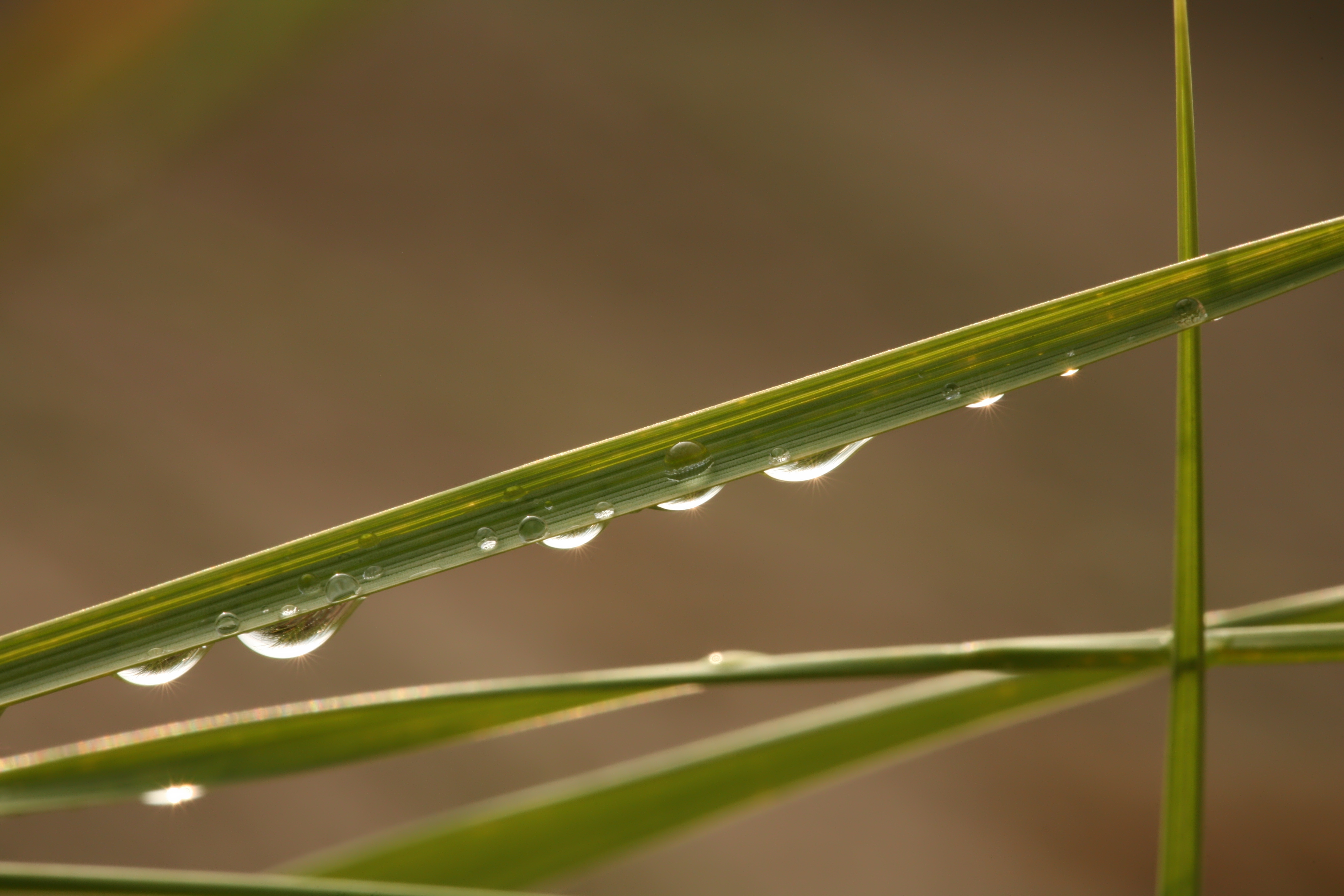 Raindrops hanging on a blade of dune grass, Lake Michigan